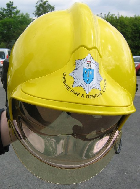 CFRS Gallet Helmet